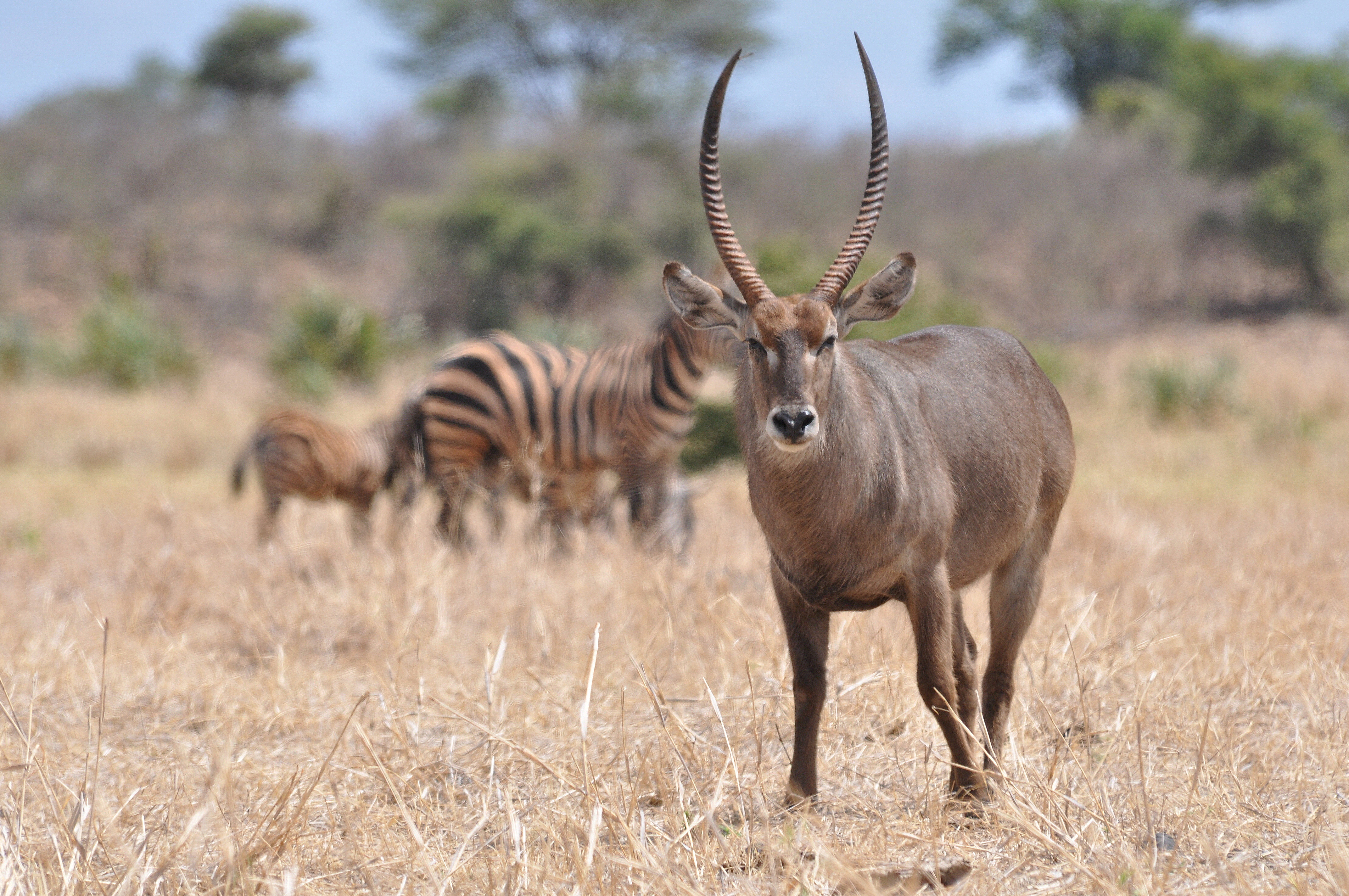 A waterbuck. Photo taken in Meru National Park, Kenya, in October 2014.